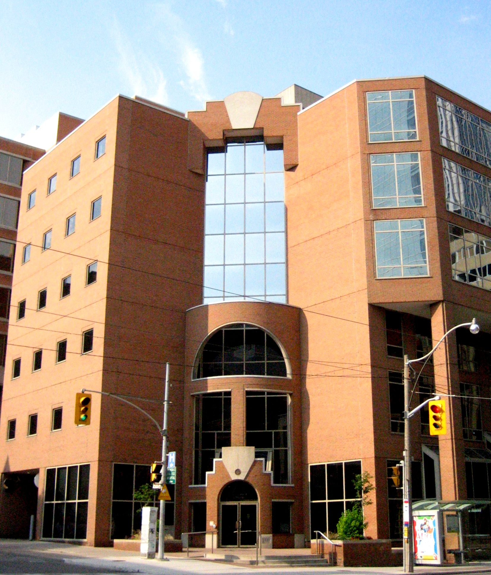 College of Physicians and Surgeons of Ontario -- from College Street in Toronto, Ontario, Canada.